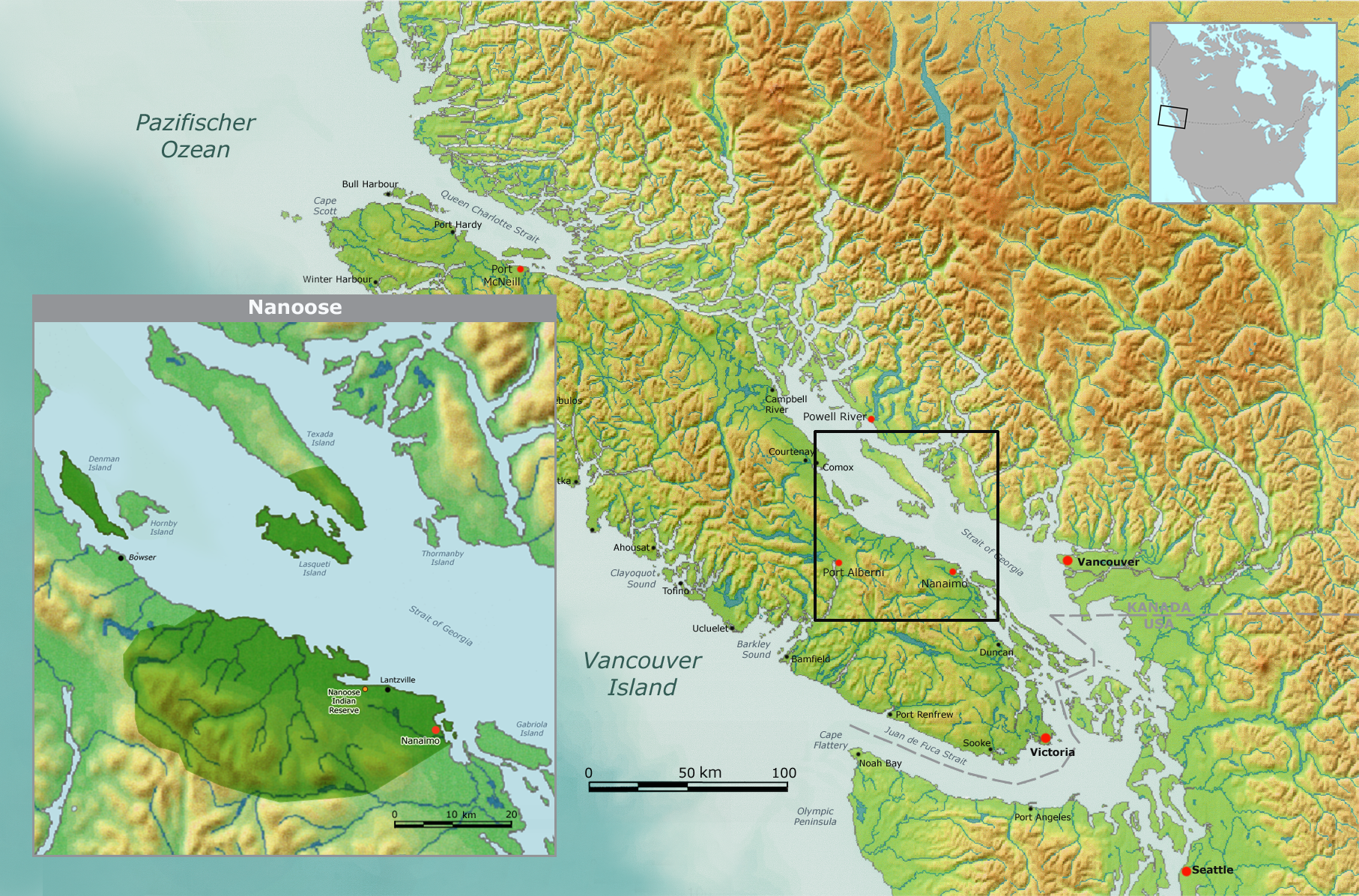 Map of Nanoose traditional tribal territory